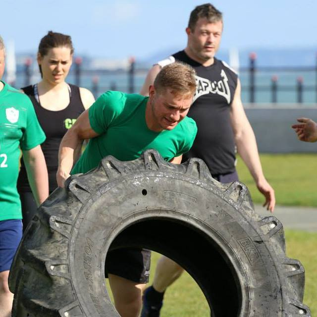 The tire flip: A movement seen in some CrossFit training